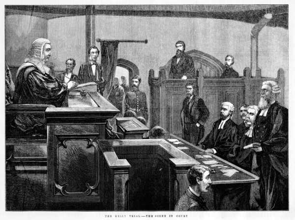 The trial of Ned Kelly, wood engraving, published in The Illustrated Australian news, Melbourne, David Syme and Co. November 6, 1880. Source State Library of Victoria, Illustrated newspaper file. Illustrated Australian news. This image is available from the Our Collections of the State Library of Victoria under the Accession Number: IAN06/11/80/201 This tag does not indicate the copyright status of the attached work. A normal copyright tag is still required. See Commons:Licensing.